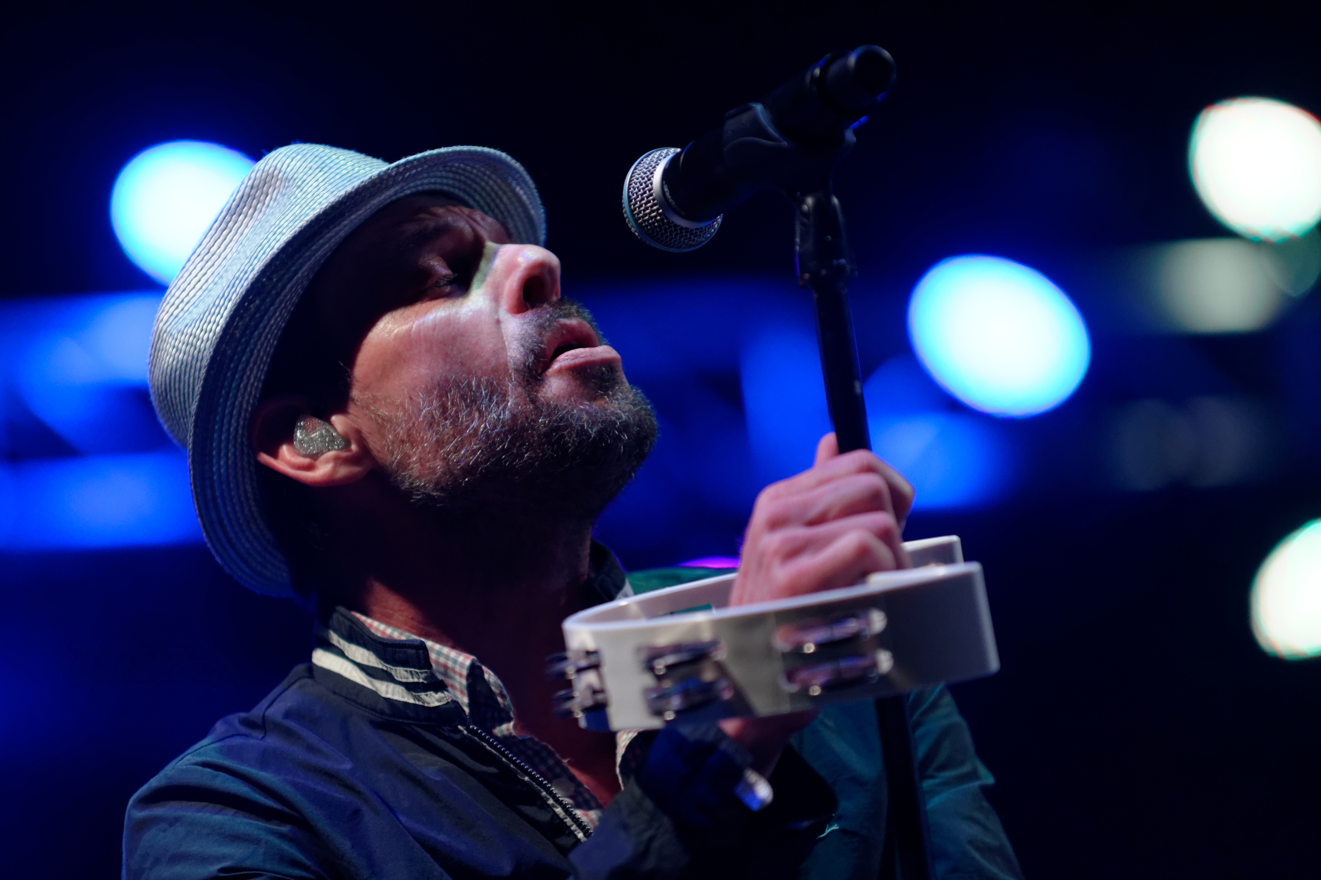 The Gin Blossoms performing live at the Huntington Beach Food Art & Music Festival in Huntington Beach California on Saturday September 6th, 2014.